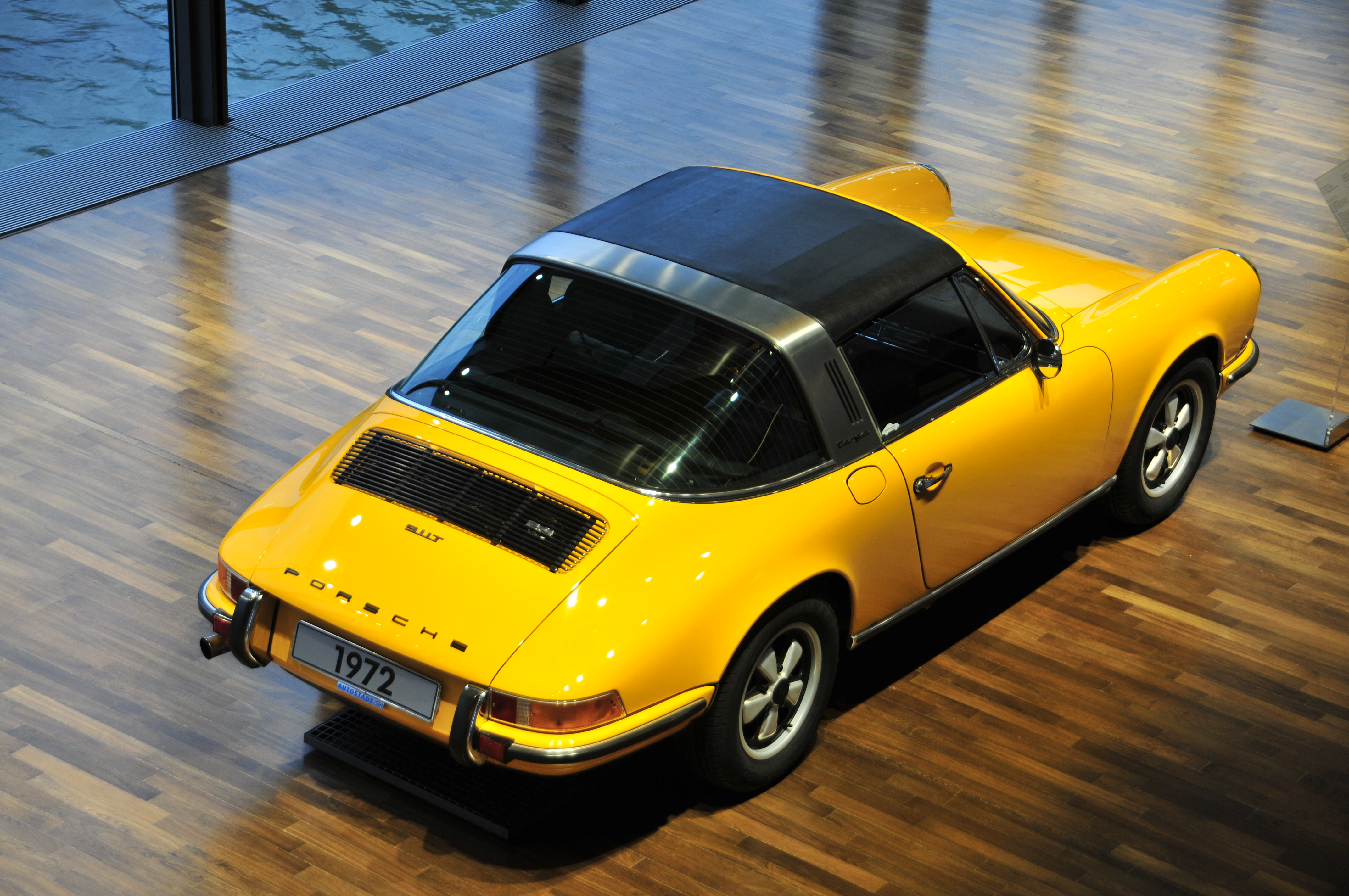 1972 Porsche 911 T Targa at the Autostadt Wolfsburg. In 1967 the Targa body style was introduced in Porsche 911 models. The Targa had a stainless steel-clad roll bar, as Porsche had, at one point, thought that the NHTSA would outlaw fully open convertibles in the United States, an important market for the 911. The name "Targa" (which means "shield" in Italian) came from the Targa Florio sports car road race in Sicily, Italy in which Porsche had notable success. The road going Targa was equipped with a removable roof panel and a removable plastic rear window (although a fixed glass version was offered alongside from 1968).